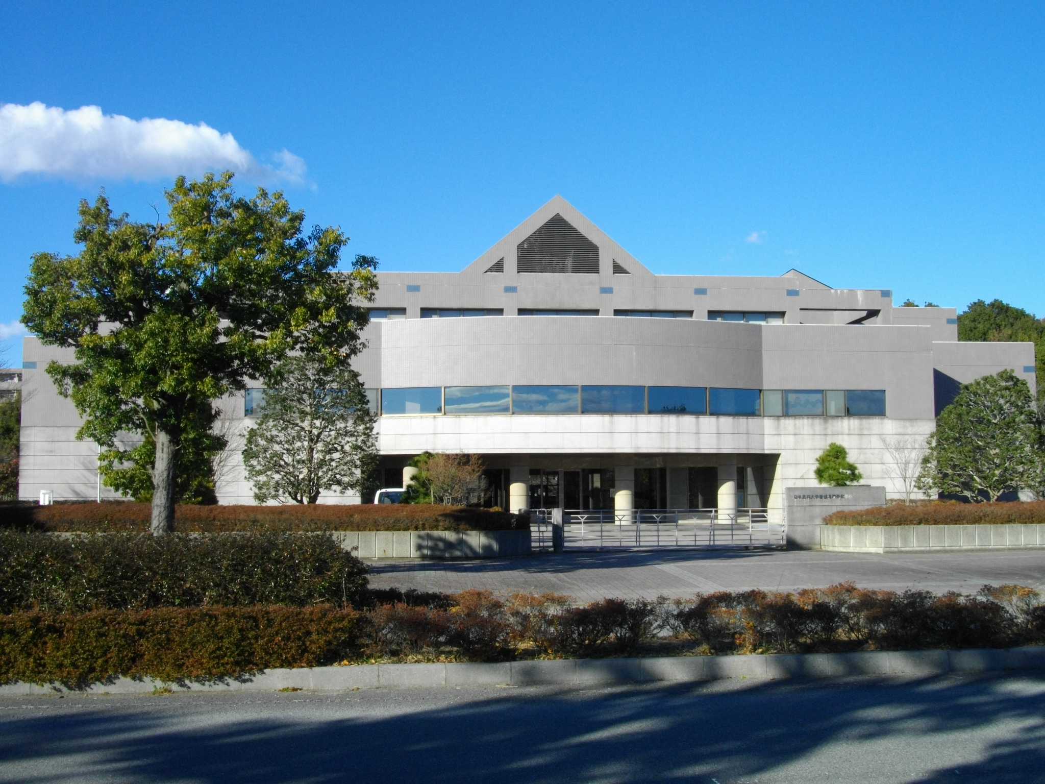 Nippon Medical School Nursing School